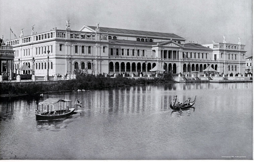 Woman's Building. Large photographic print from The White City (As It Was), photographs by William Henry Jackson. World's Columbian Exposition 1893. Digitial Identifier: GN90799d_JWH_027w World's Columbian Exposition Collection at The Field Museum